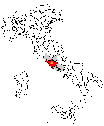 Enlarged yellow dot marking Rome's position Category:Maps of Rome